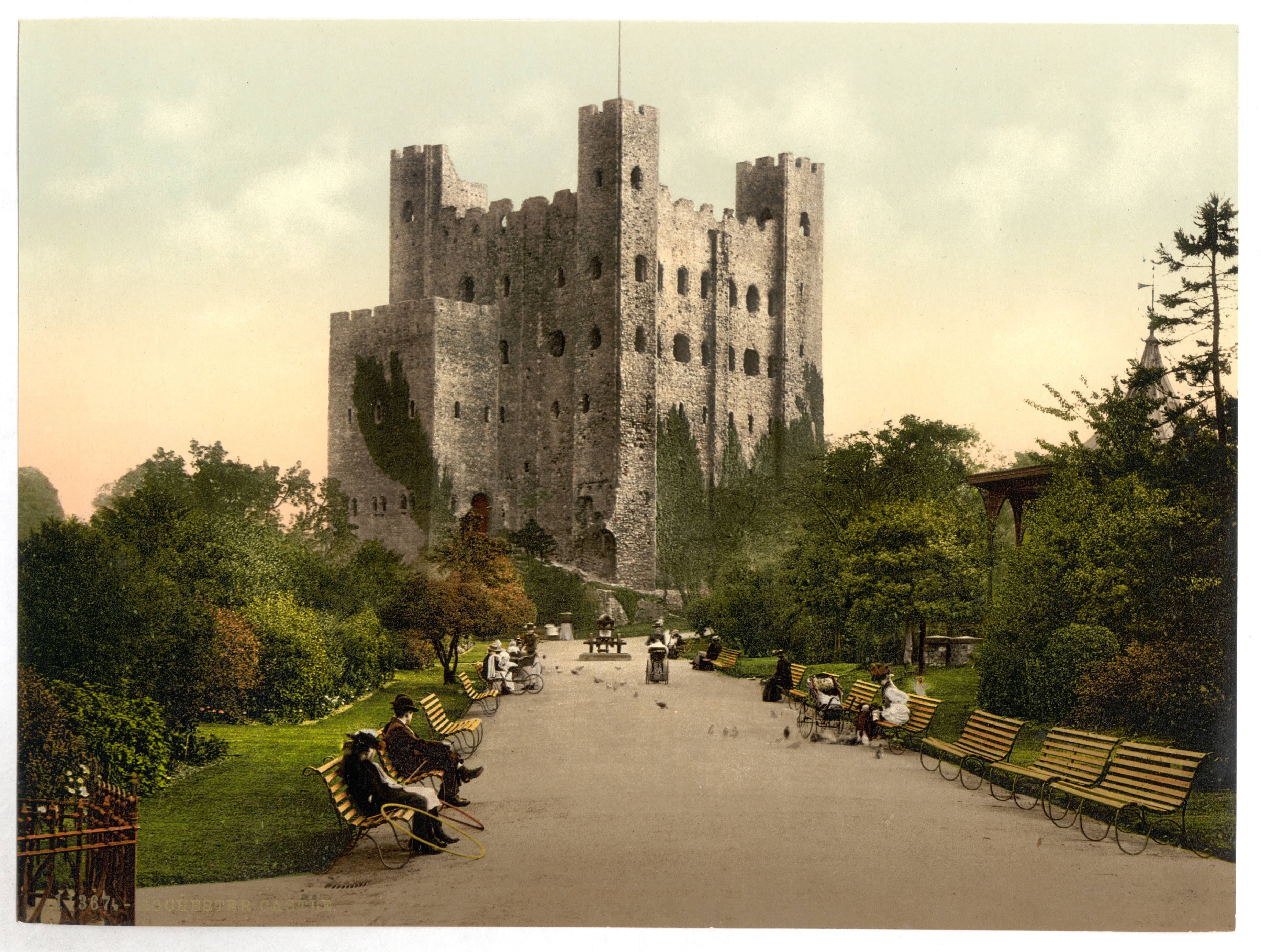 Print no. "11367".; Forms part of: Views of the British Isles, in the Photochrom print collection.; More information about the Photochrom Print Collection is available at Title from the Detroit Publishing Co., Catalogue J-foreign section, Detroit, Mich. : Detroit Publishing Company, 1905.